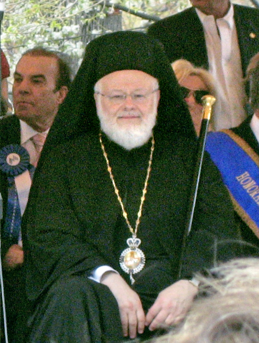 Greek Orthodox Metropolitan Methodios of Boston as seen at the announcer's tent at Boston's 2009 Greek Independence Day Parade.